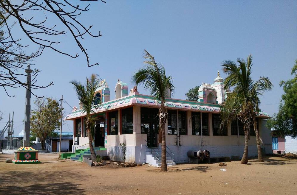 Sri Sunama Jakini Maatha temple in Gooty